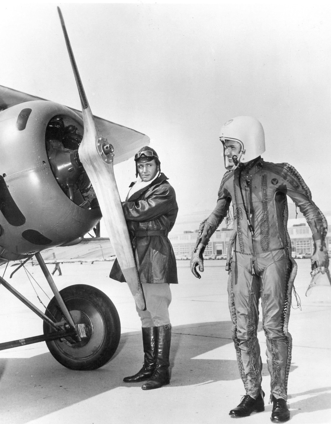 Photo of the Twilight Zone episode "The Last Flight" with Kenneth Haigh.